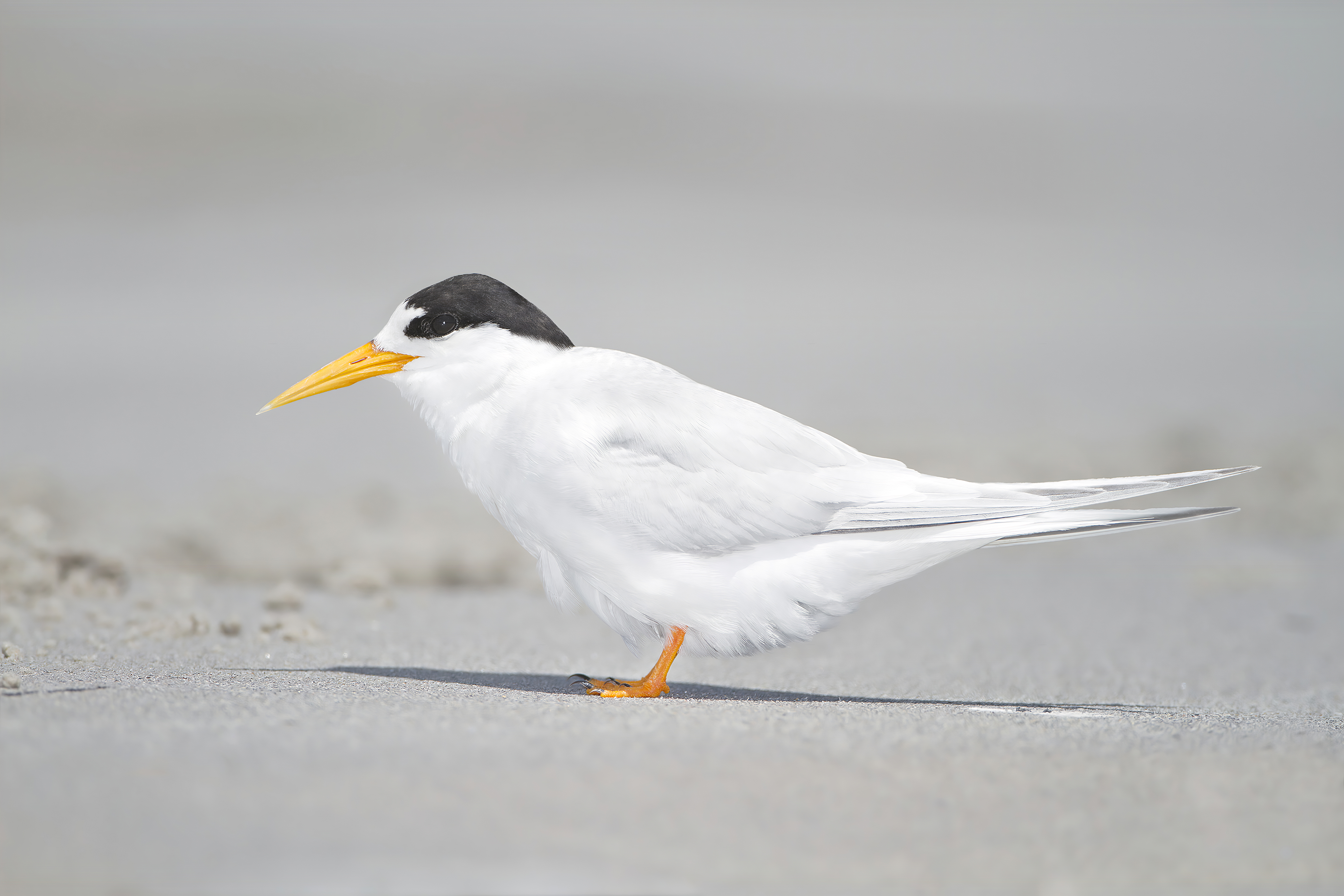 Fairy Tern Sternula nereis, Little Swanport, Tasmania, Australia